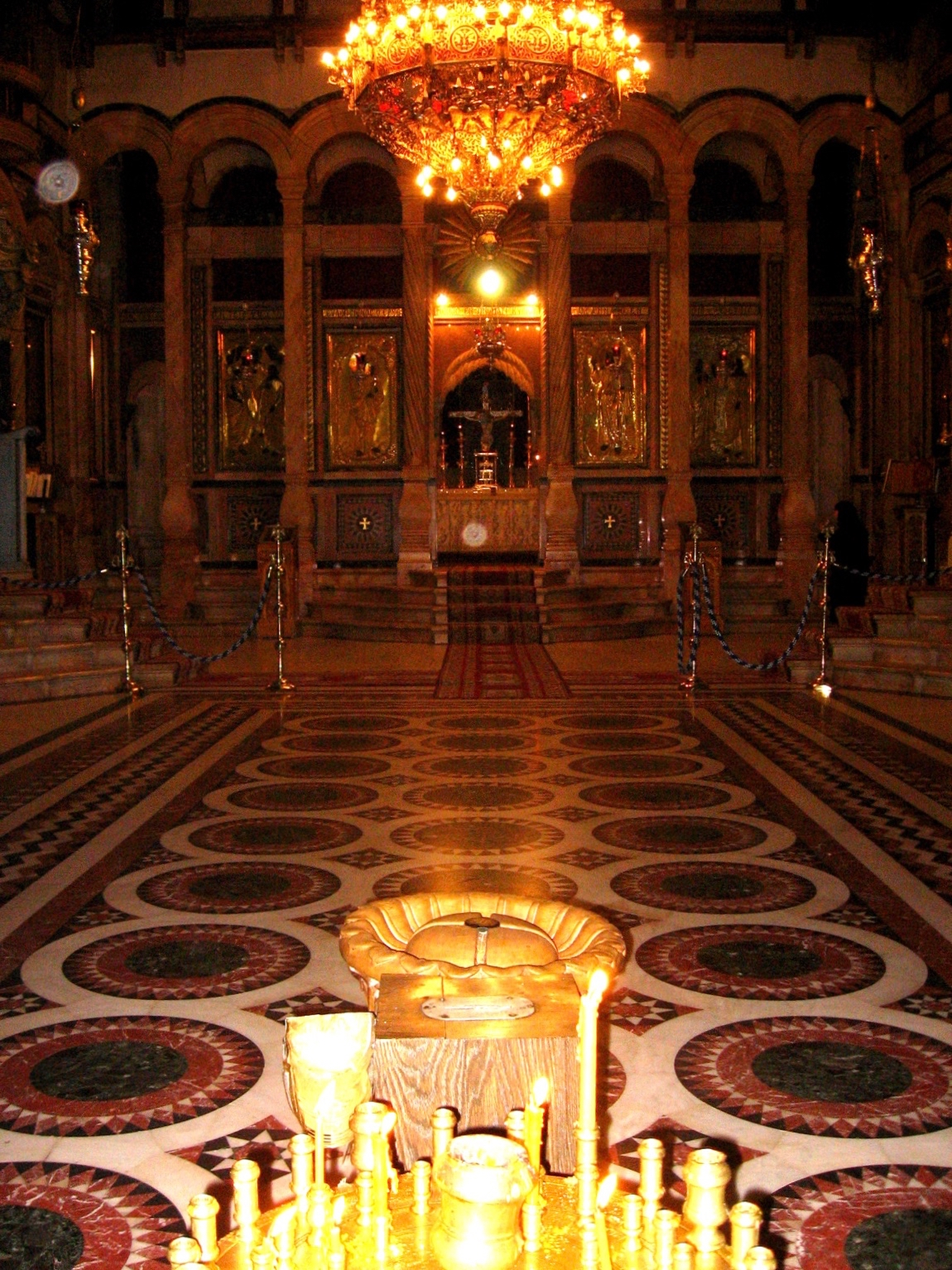 The Catholicon (main church), Church of the Holy Sepulchre, Jerusalem.